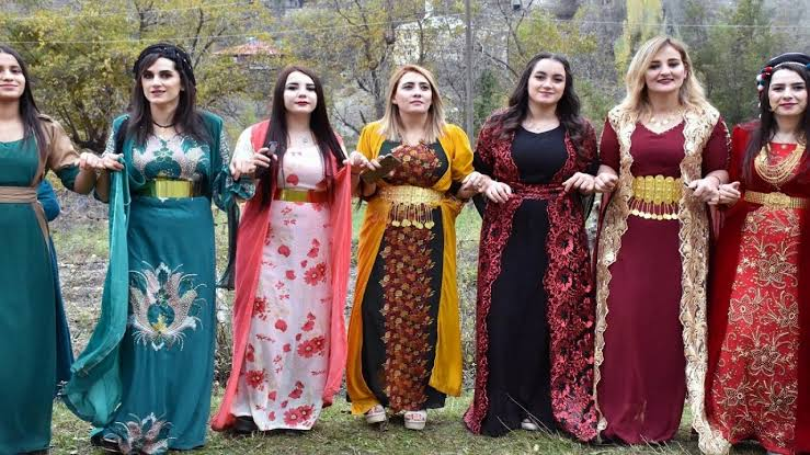 This photo shows the halay dance.